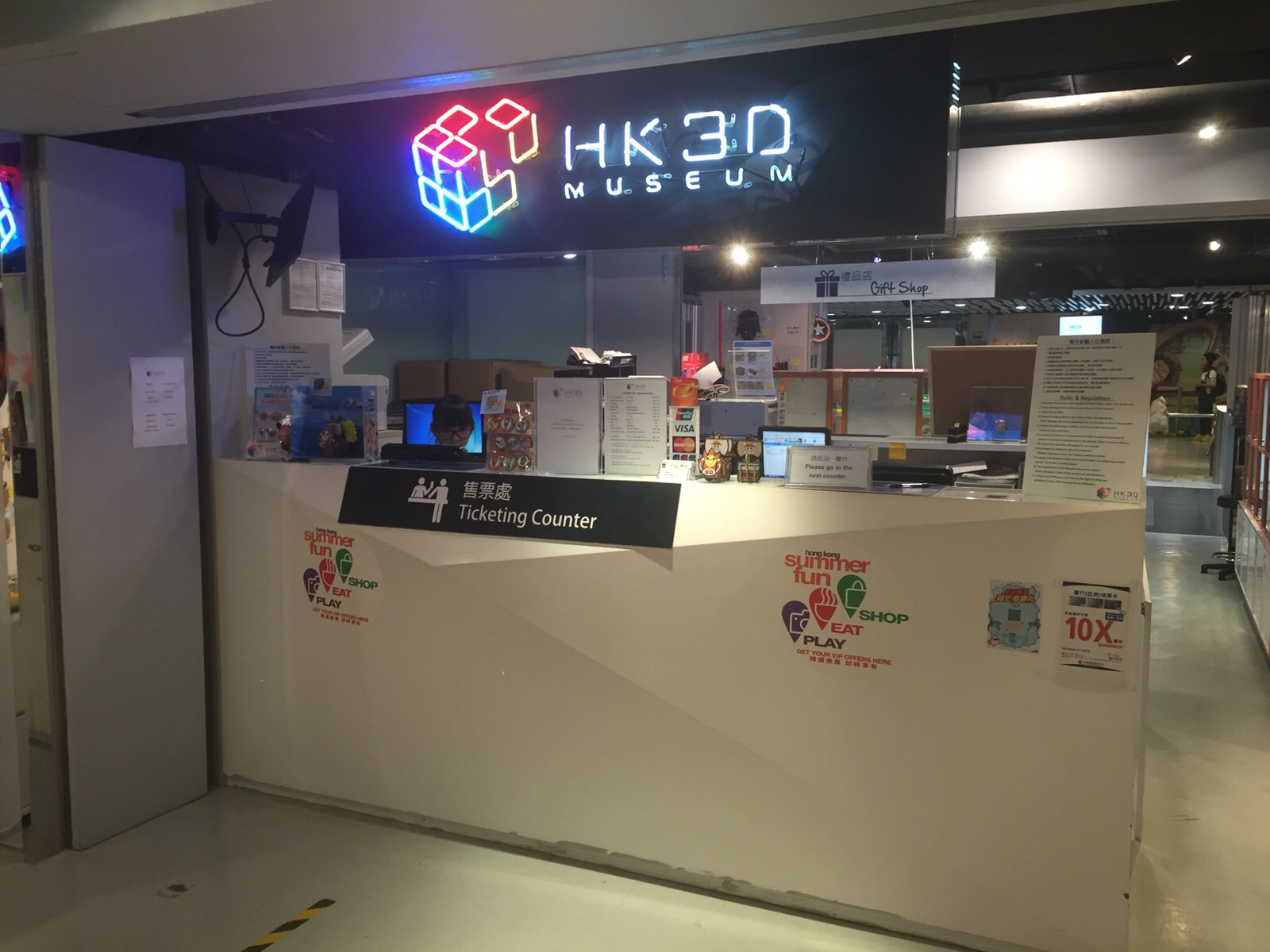 HK3DM Ticketing Counter